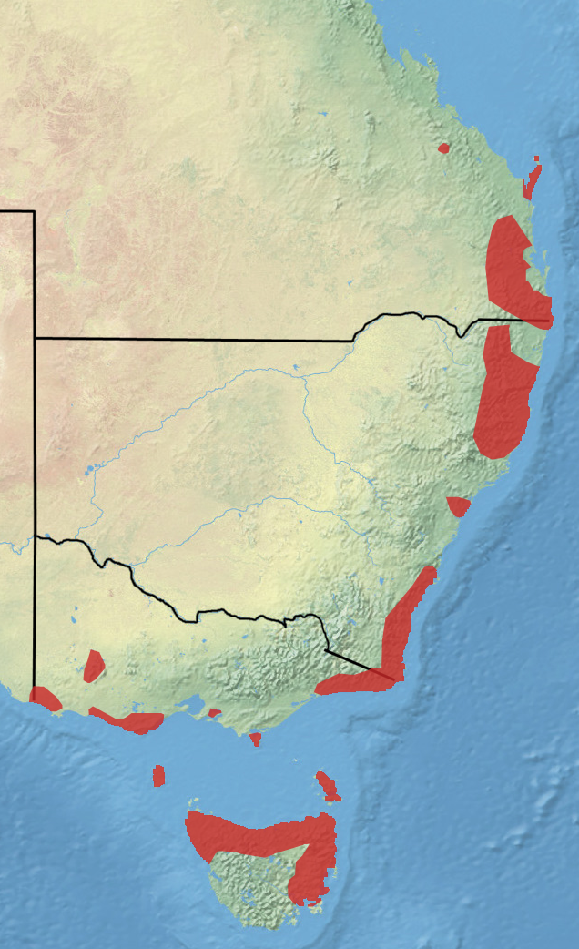 The Distribution of the Long-nosed Potoroo